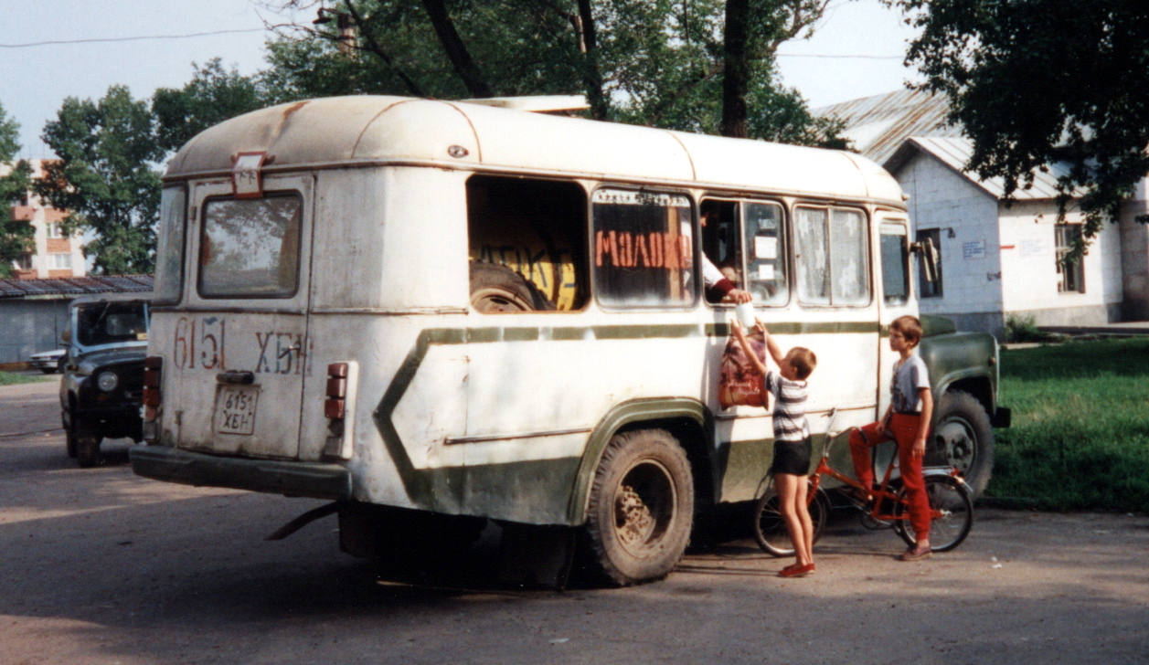 Retired school bus used as a milk truck, Khabarovsk, Russia, 1998